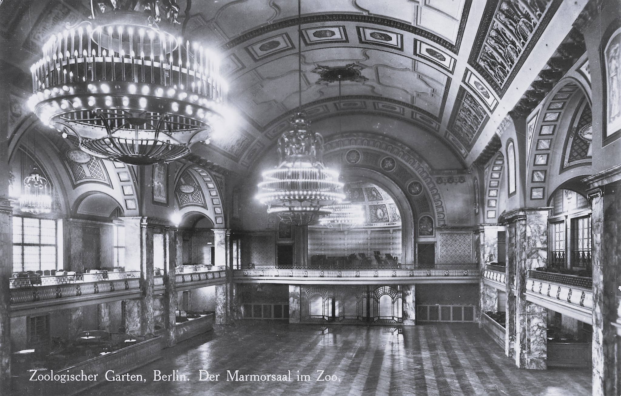 The marble room in the Berlin Zoological Garden. The Nosferatu film premiered here in 1922.